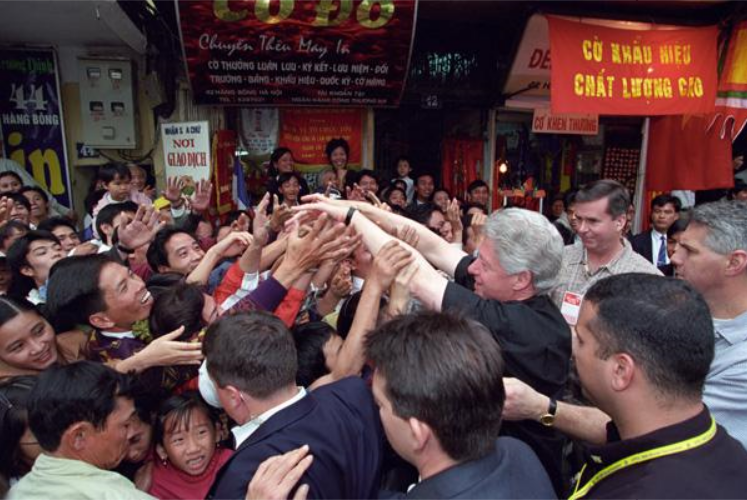 Title: Photograph of President William Jefferson Clinton Greeting a Large Crowd in Hanoi, Vietnam, 11/18/2000 Creator: President (1993-2001 : Clinton). White House Photograph Office. (01/20/1993 - 01/20/2001) (Most Recent) Types of Archival Materials: Photographs and other Graphic Materials Contacts: William J. Clinton Library (NLWJC), 1200 President Clinton Avenue, Little Rock, AR 72201. Phone: 501-244-2877; Fax: 501-244-2881; Production Dates: 11/18/2000 From: Series: Photographs Relating to the Clinton Administration, compiled 01/20/1993 - 01/20/2001 Collection WJC-WHPO: Photographs of the White House Photograph Office (Clinton Administration), 01/20/1993 - 01/20/2001 Persistent URL: Access Restriction(s): Unrestricted Use Restriction(s): Unrestricted